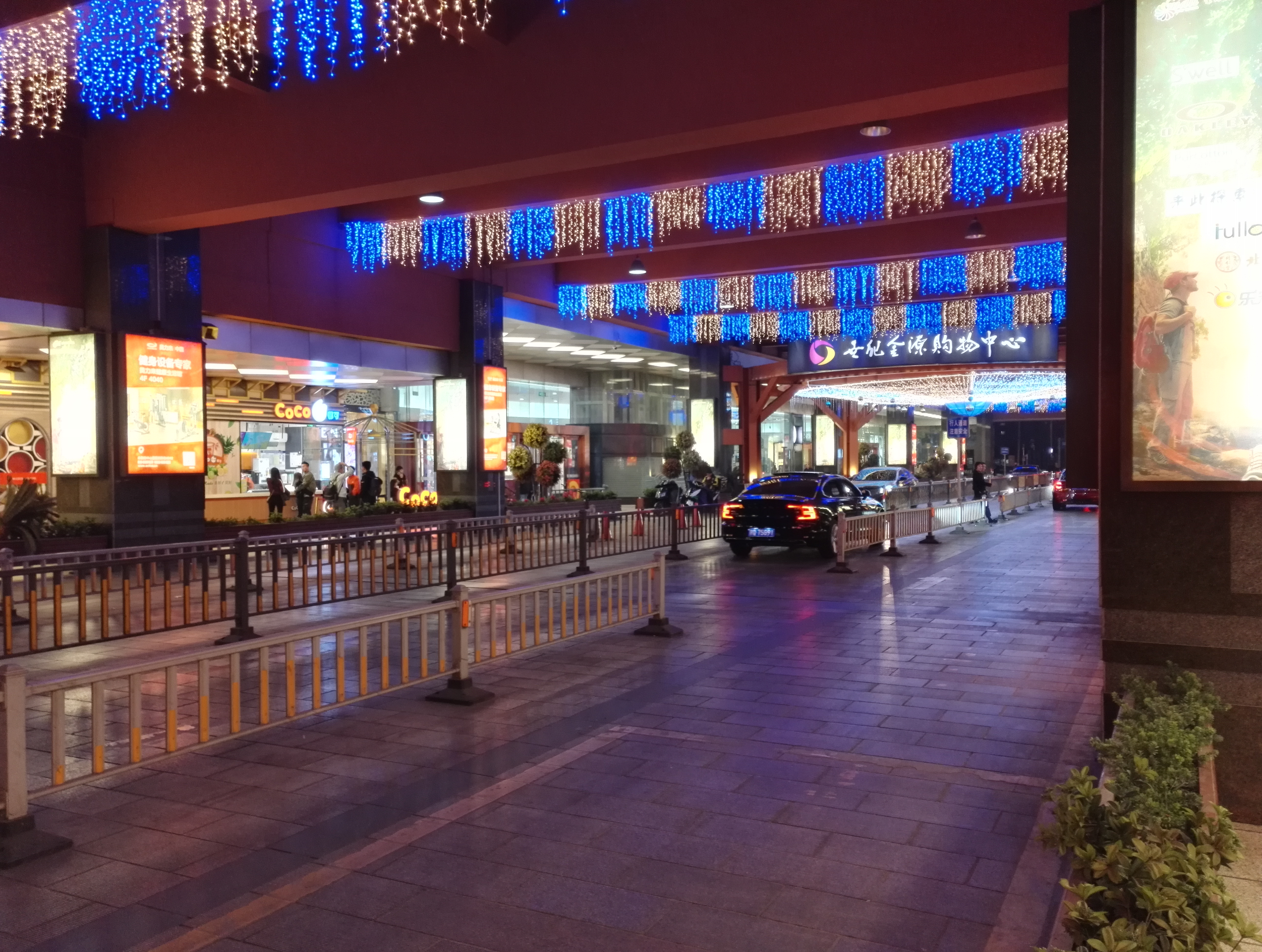 Road through Golden Resources Mall